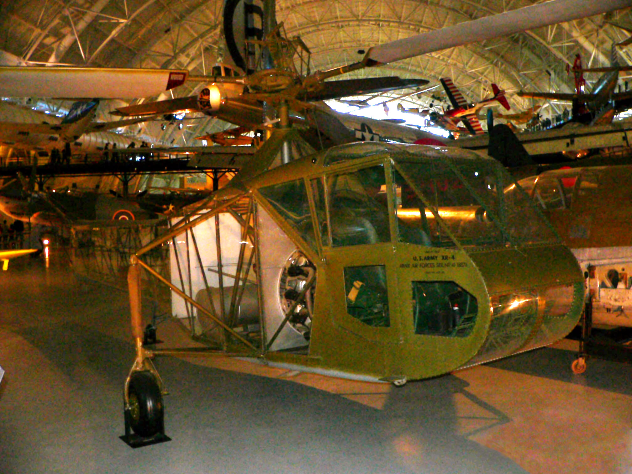 A levelled and improved version of the old image